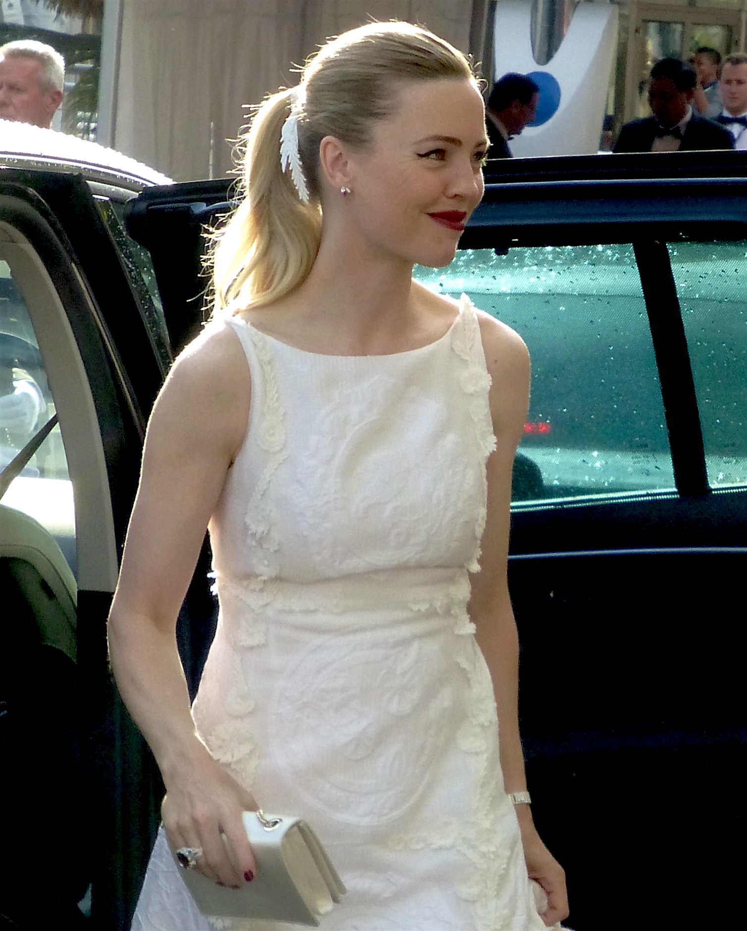 Melissa George at 2016 Cannes Film Festival